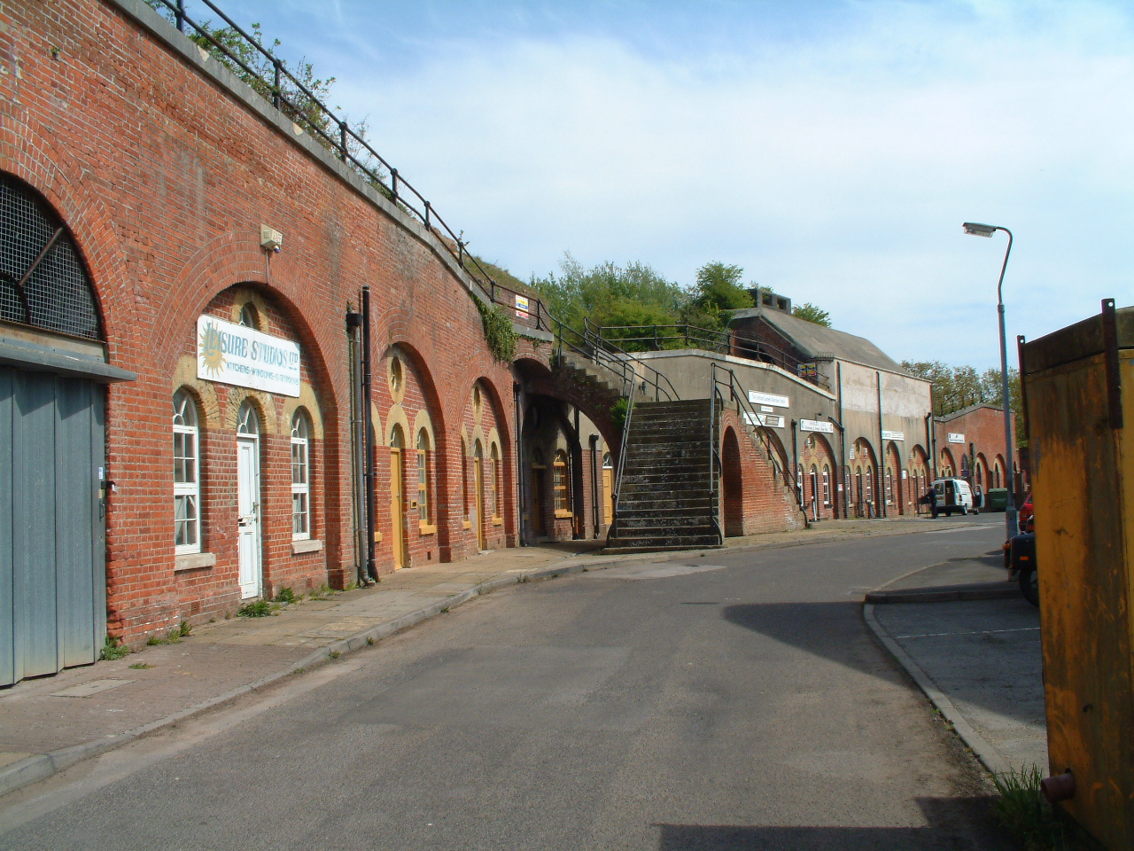 View along the north casemates at Fort Fareham